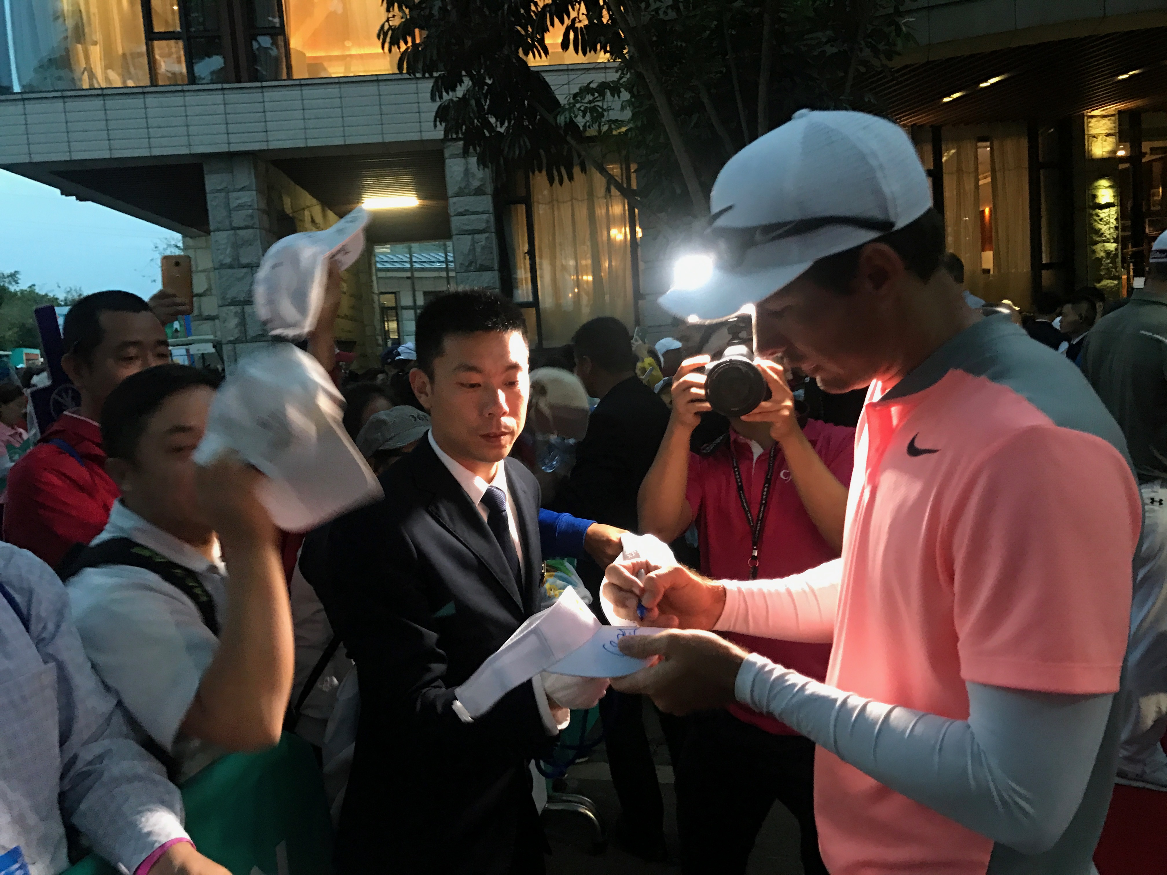 Golfer Dylan Fritelli signing autographs post third round at Shenzhen International Golf Tournament at Genzon golf club on 22nd April 2017